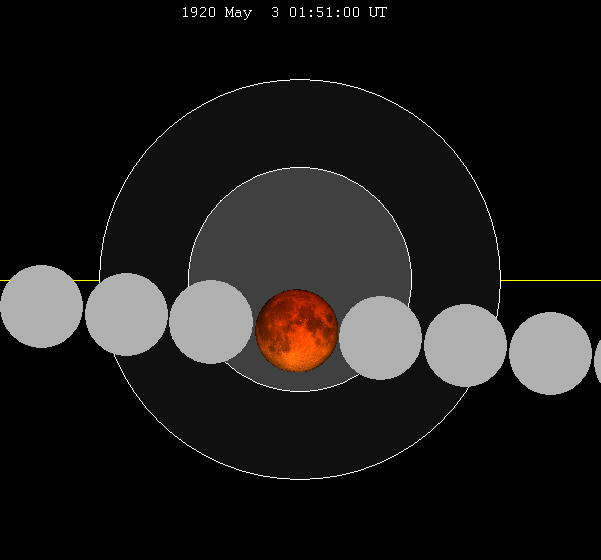 May 1920 lunar eclipse chart of moon's lunar eclipse path through the earth's shadow. thumb